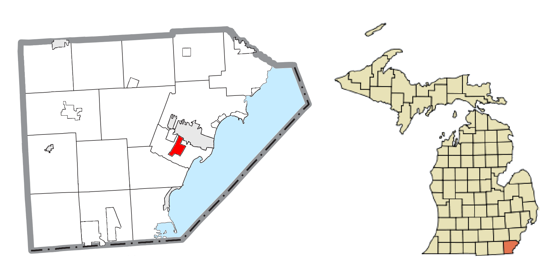 South Monroe, MI